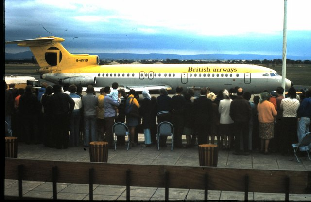 Northeast Airlines Trident 1E at Teesside Airport (1974)